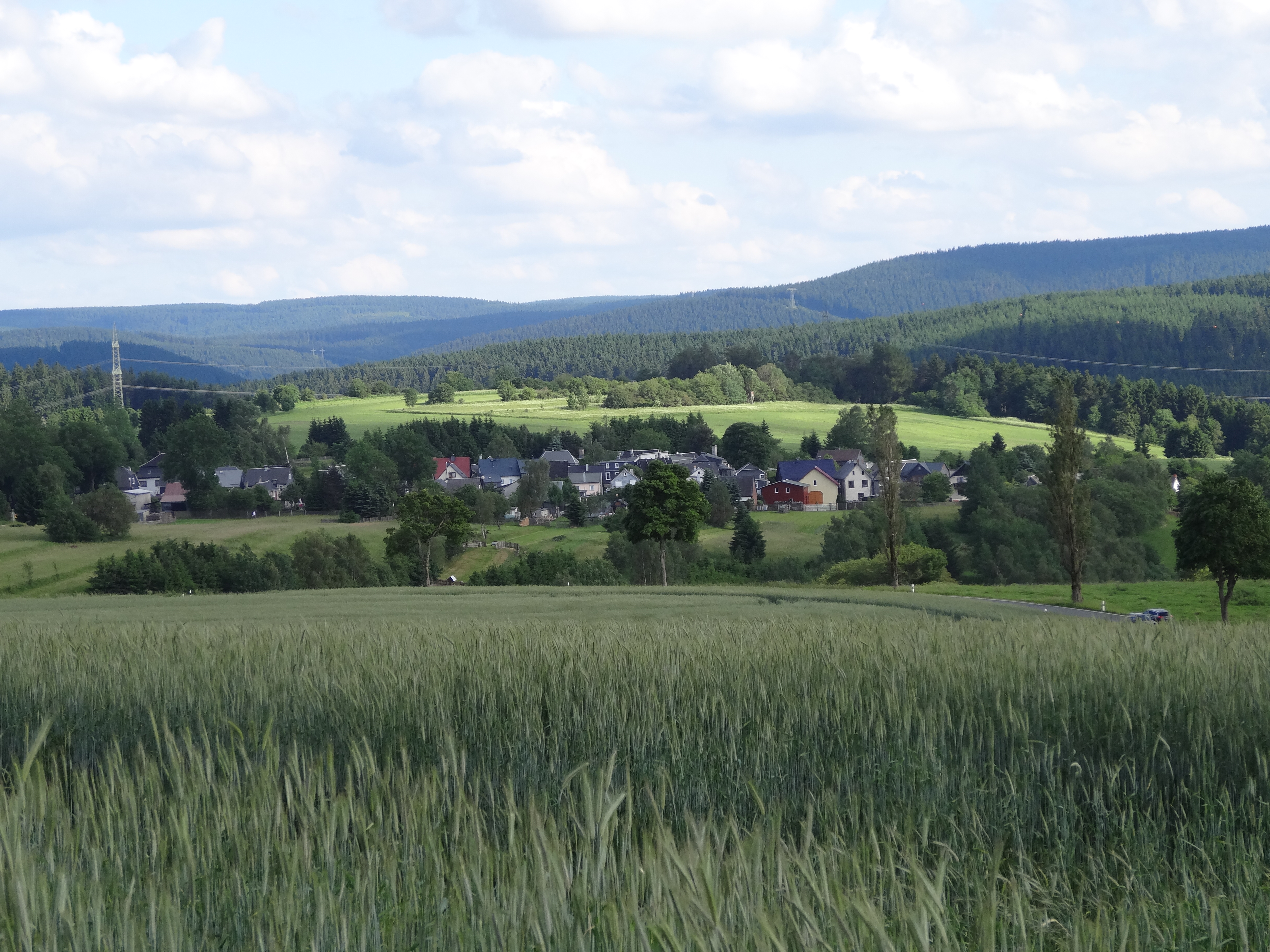 View on Böhlen in Thuringia, Germany from North-West